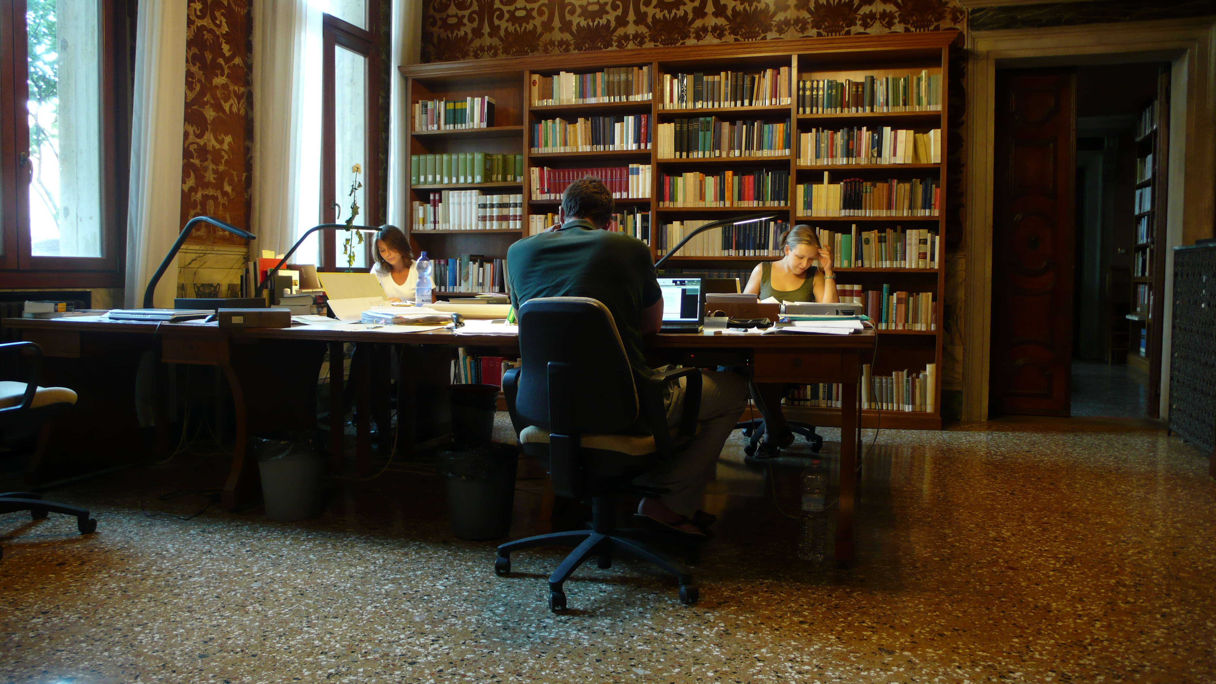 Library Deutesches Studienzentrum in Venedig